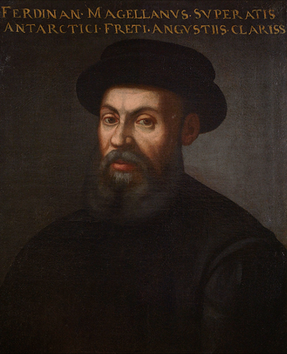 Half-length portrait of a bearded Ferdinand Magellan (circa 1480-1521) facing front.